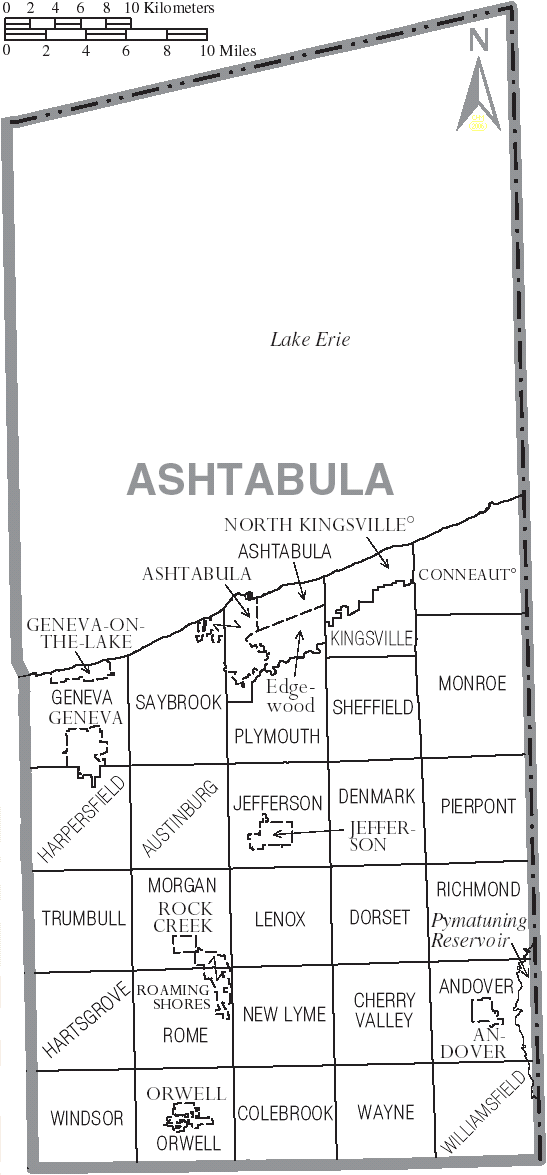 Map of Ashtabula County, Ohio, United States with township and municipal boundaries